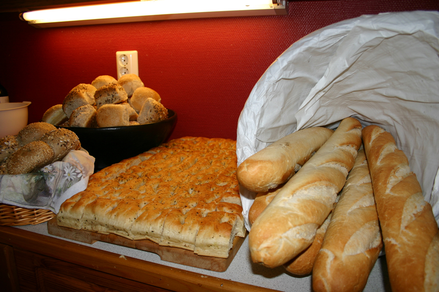 Baked food